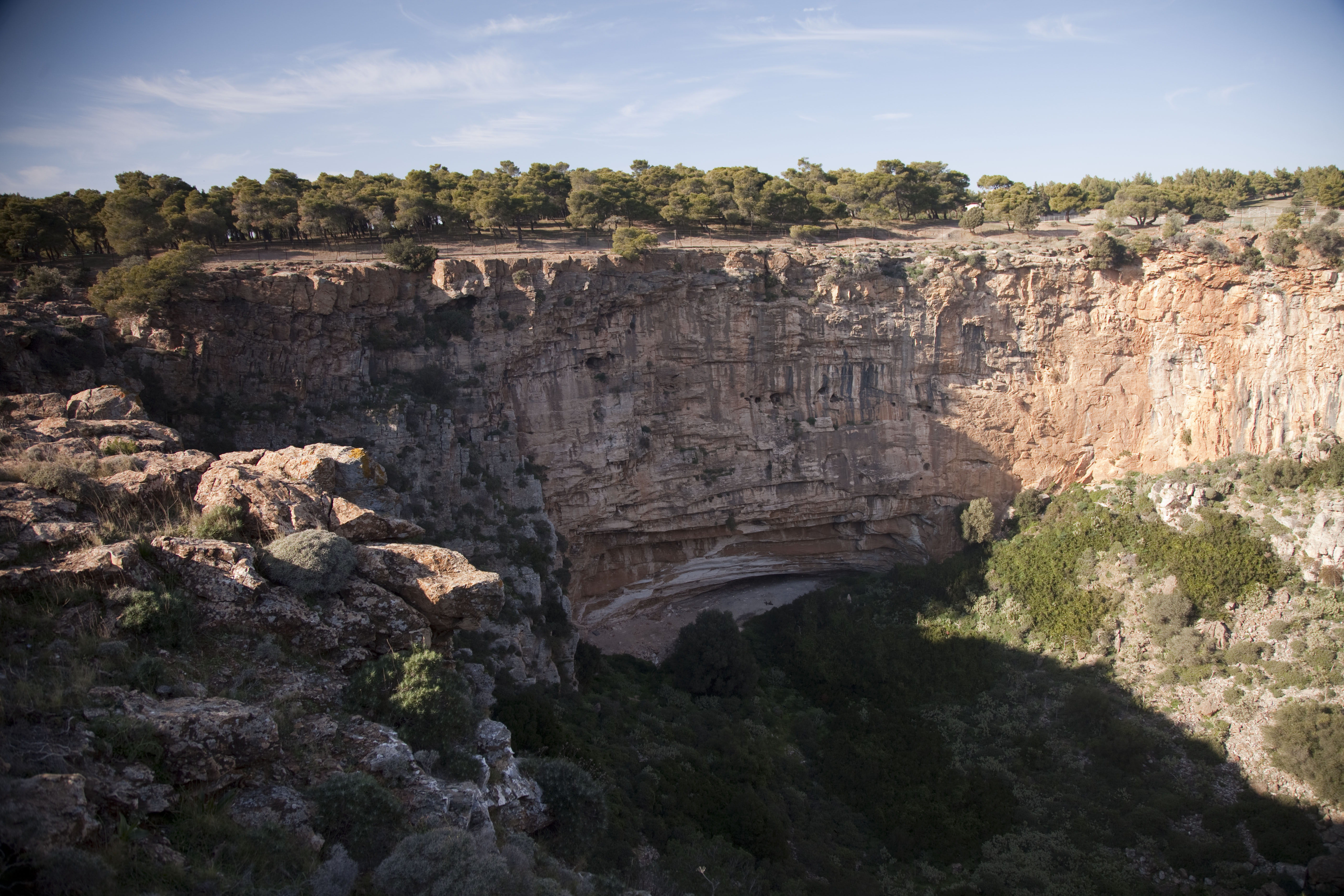 Chaos area, Lavrion District Mine, Attica Greece